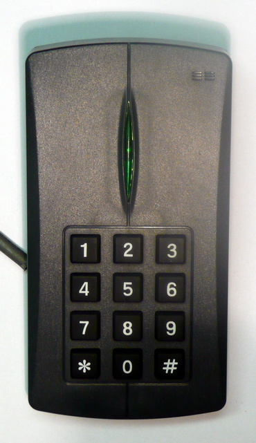 125Khz proximity reader with keypad by Elko.